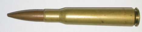 M2 machine gun round from a Confederate Air Force B-17 Flying Fortress.